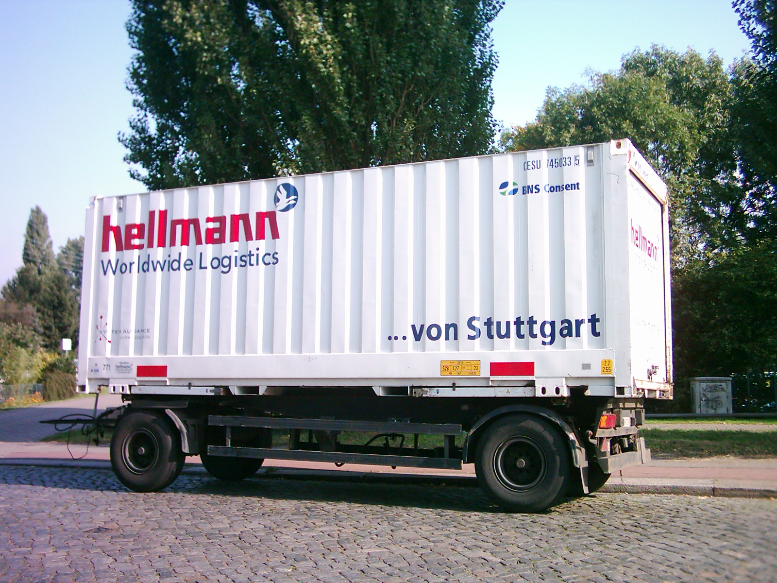 Trailer of Hellmann Worldwide Logistics in Hamburg, Germany.